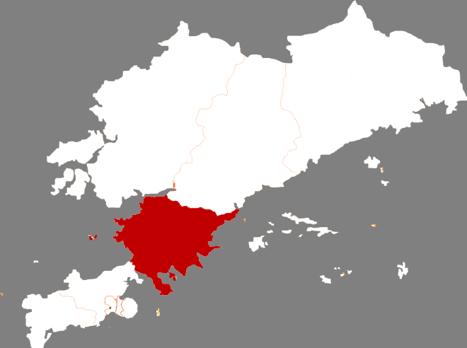 Location of Jinzhou district in Dalian City, China